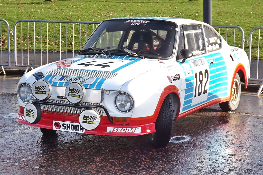 Skoda 130rs from the Czech Republic was another international entry